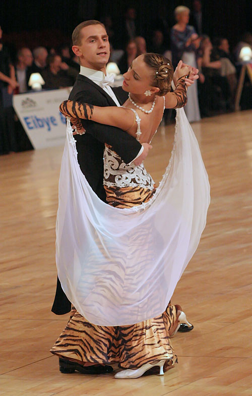 Ballroom tango in dance competition. Photo by Henrik Jessen